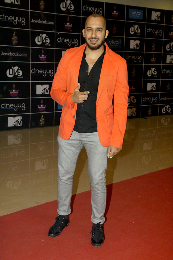 Ali Quli Mirza at the Red Carpet of "MTV Bollyland" bash in 2015